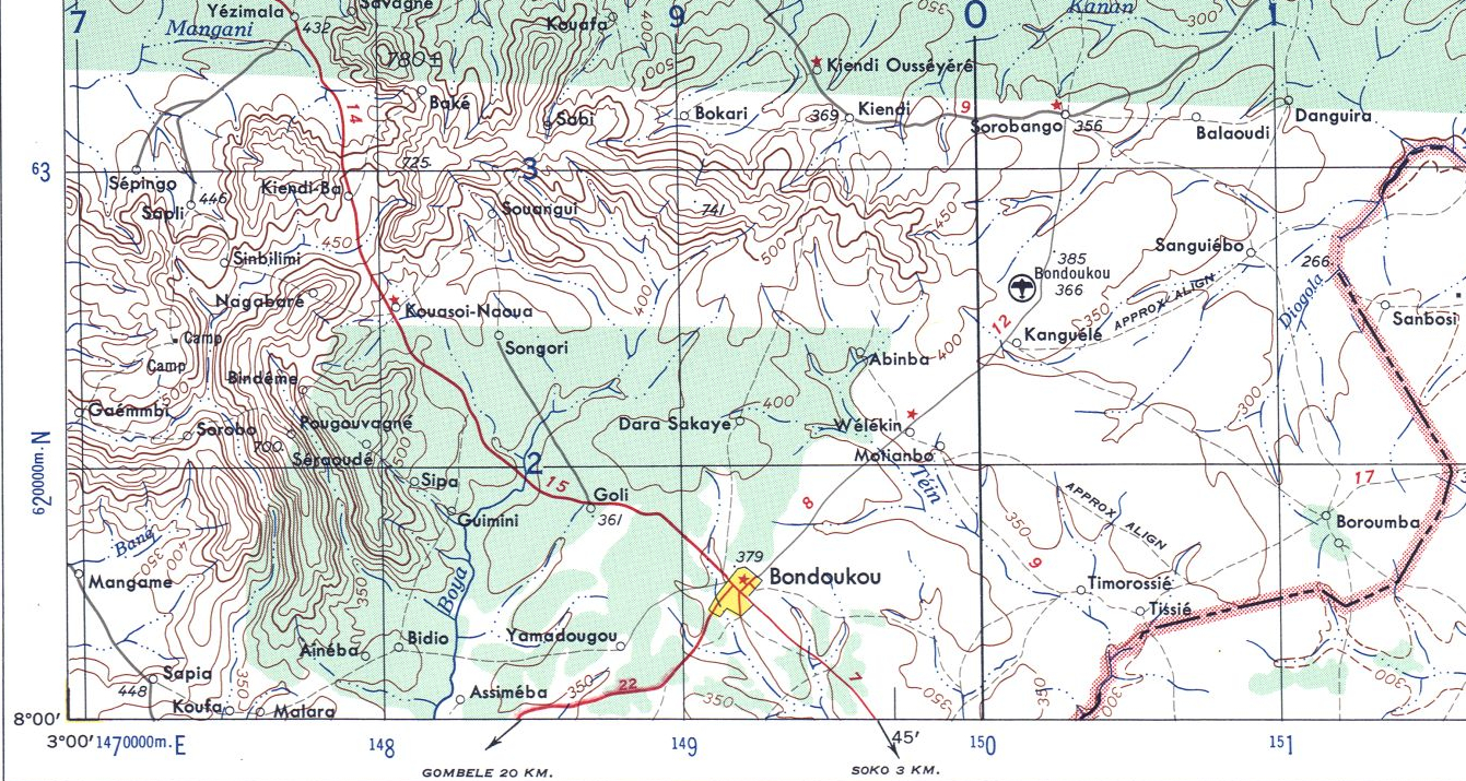 US Army map of West Africa, specifically the area along northern border of modern Ghana and Cote d'Ivoire (then Gold Coast Colony and French West Africa).